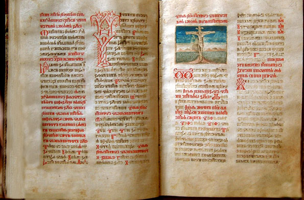 Croatian Glagolitic Missal, 15th century